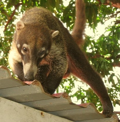 Crop of file in filename